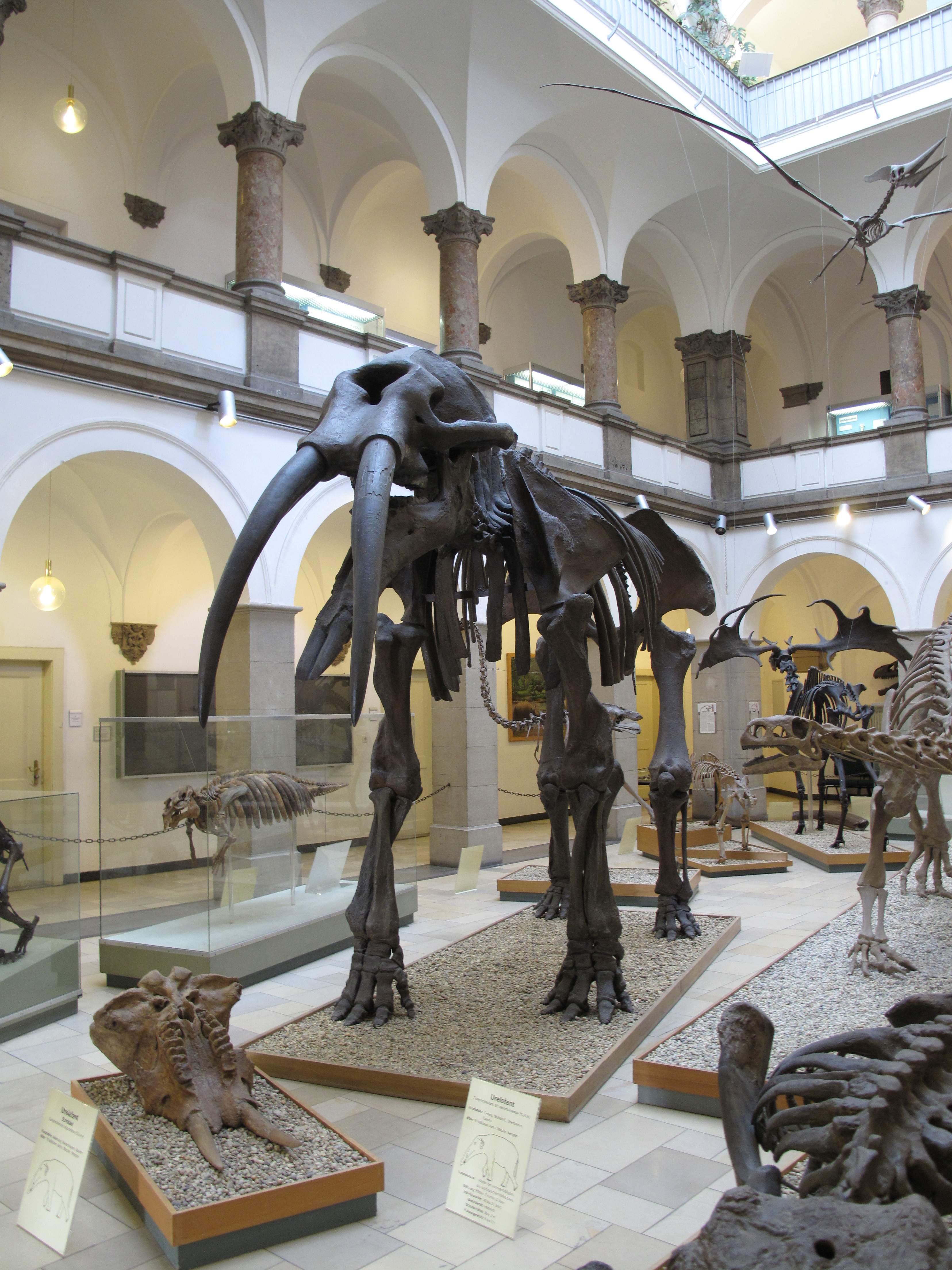 The Paläontologische Museum in Munich, Germany.